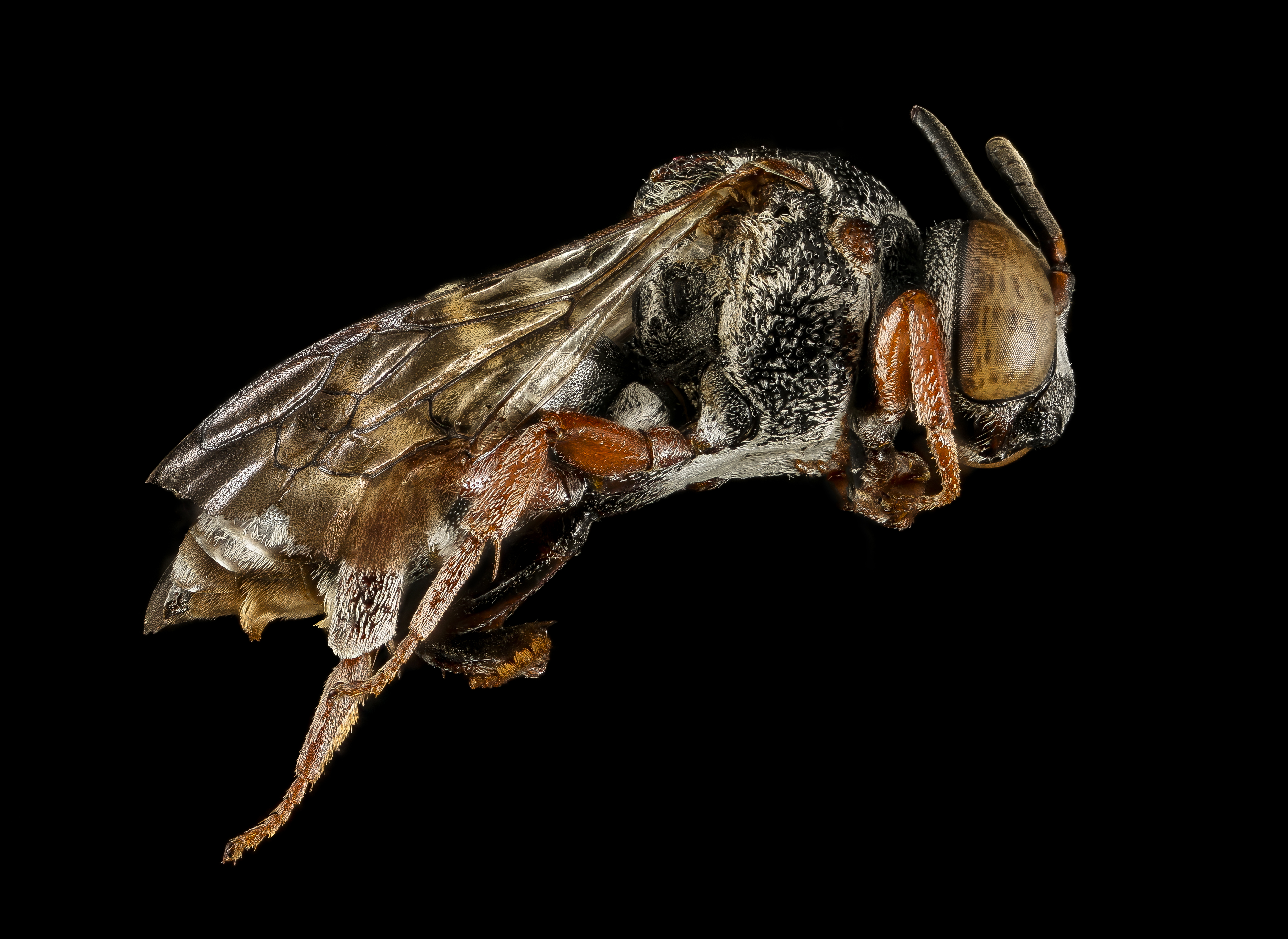 A nest parasite...an invader of other bees nest's ... eggs are laid and the host's young killed and food eaten. In this case the host if Colletes latitarsis. This rather beat up specimen comes from Blackwater National Wildlife Refuge....paid for with lots of donations to the mosquito population on the refuge. Photography by Ashleigh Jacobs.